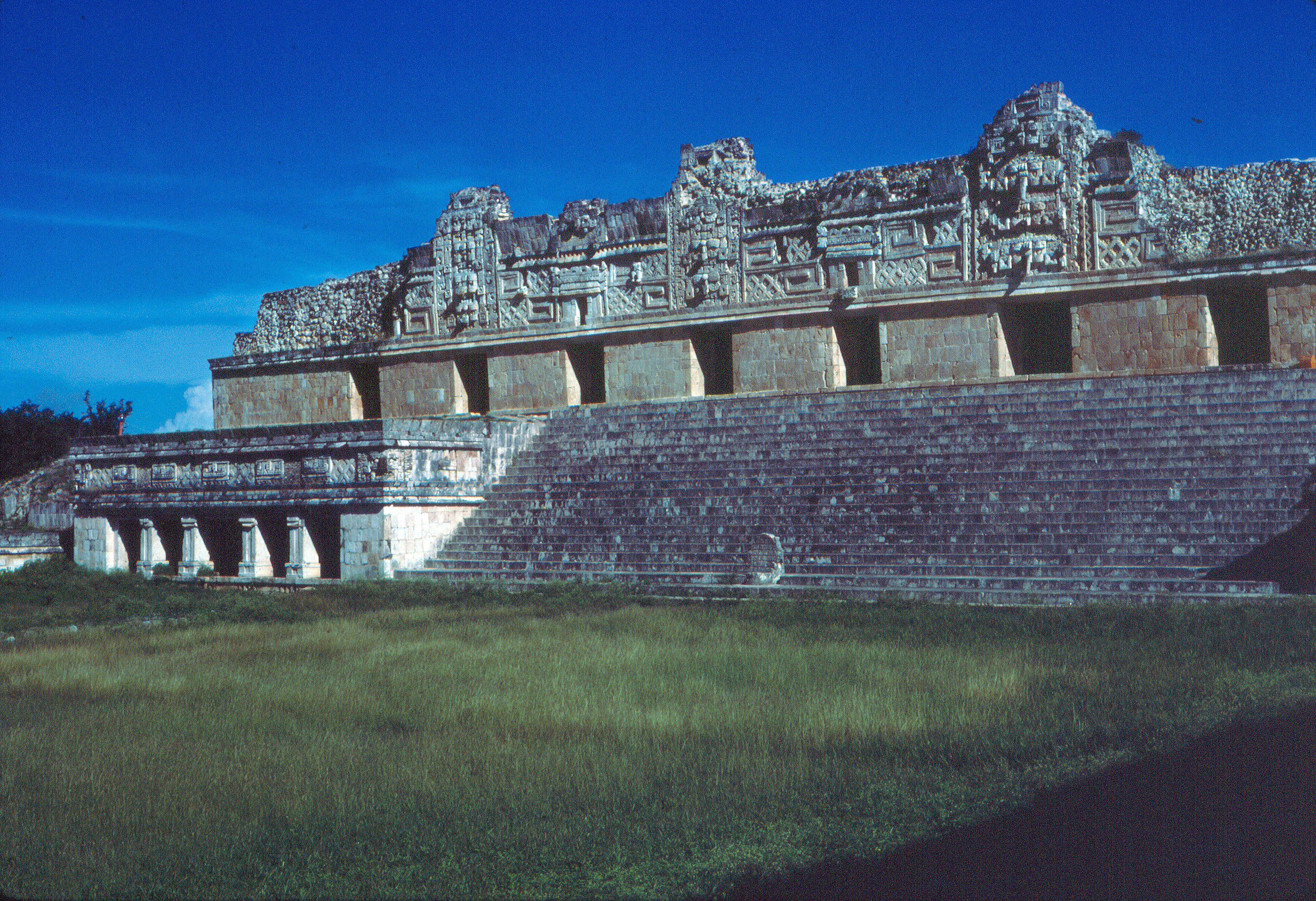 Uxmal, Yucatan, Mexico: Phallic temple.